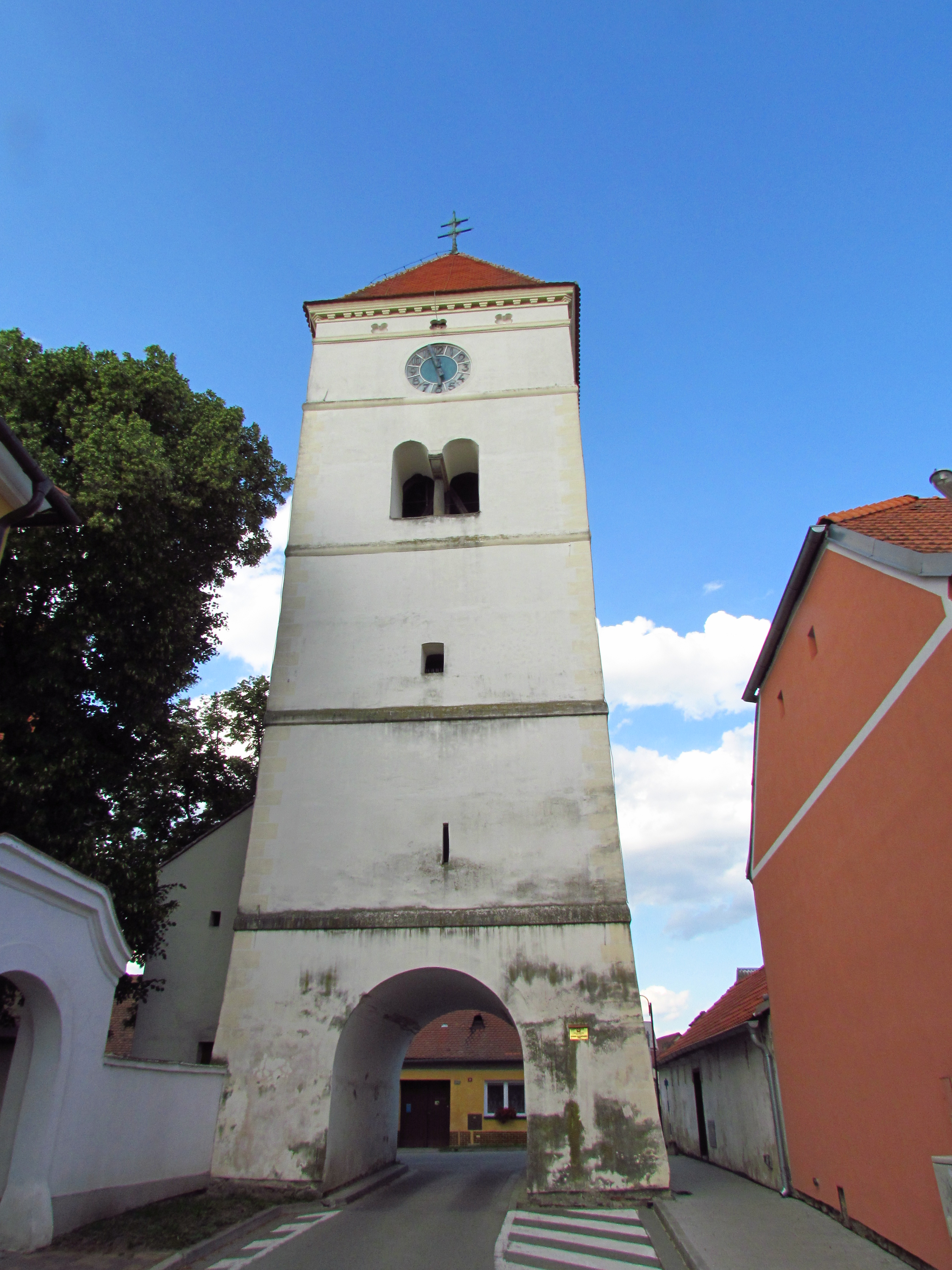 Municipal tower in Rouchovany, Třebíč District.